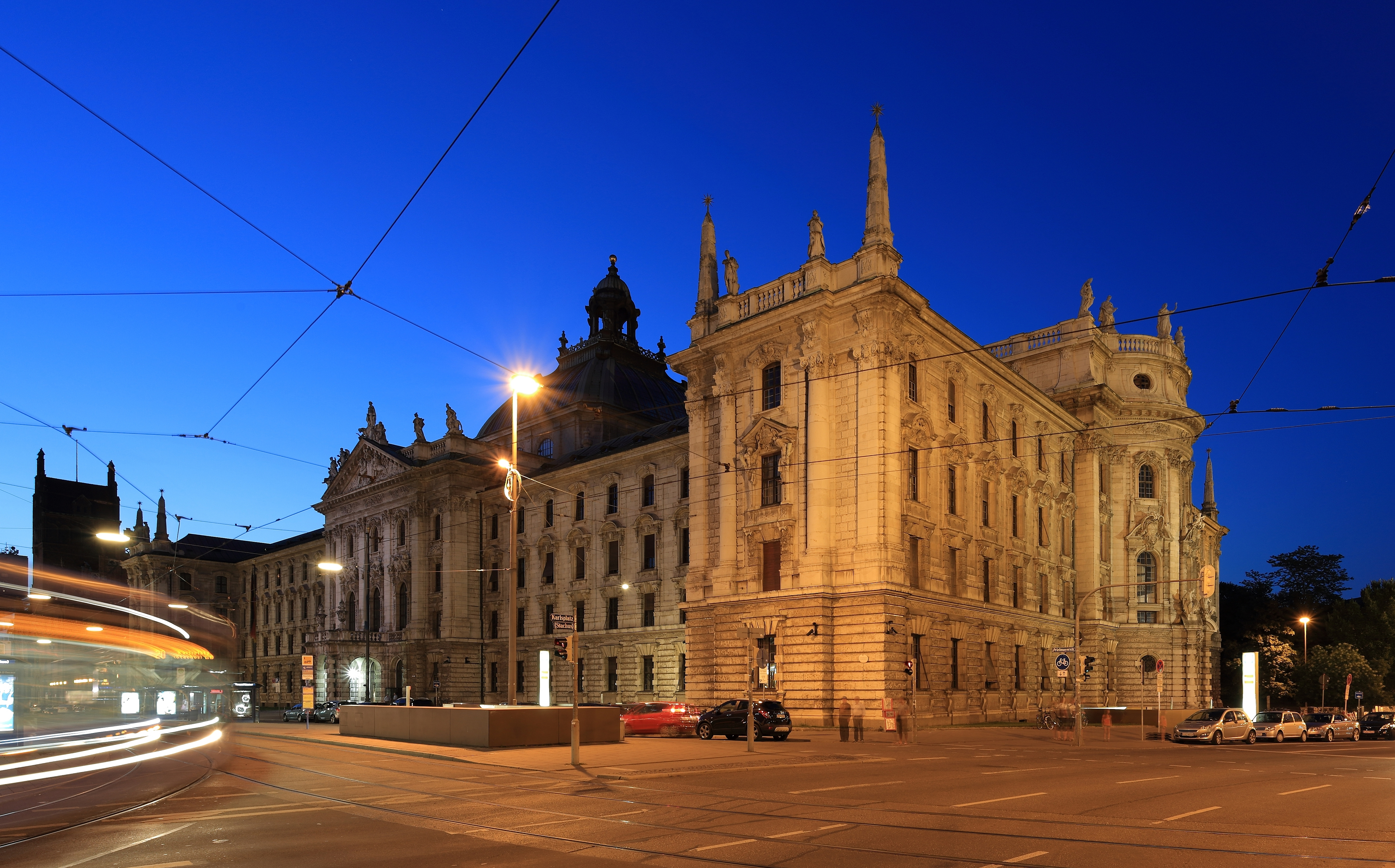 Palace of Justice, Munich, at dusk